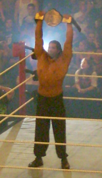 The Great Khali holding the World Heavyweight Championship over his head on August 13, 2007 during the WWE Saturday Night's Main Event taping.